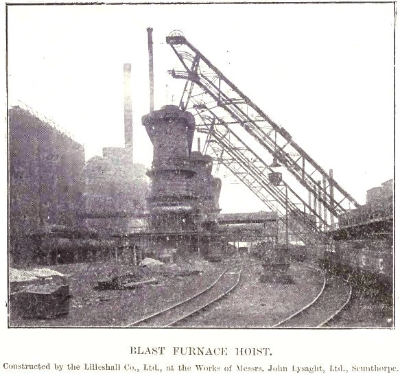 Blast furnaces at John Lysaght's plant, Scunthorpe, England